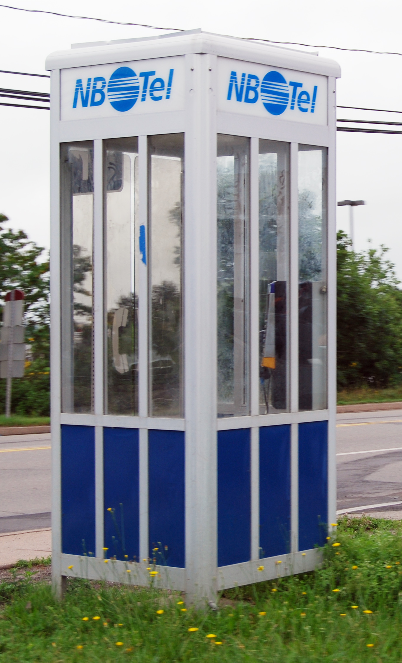 I, Myke Waddy took this photo, Sussex, New Brunswick Canada